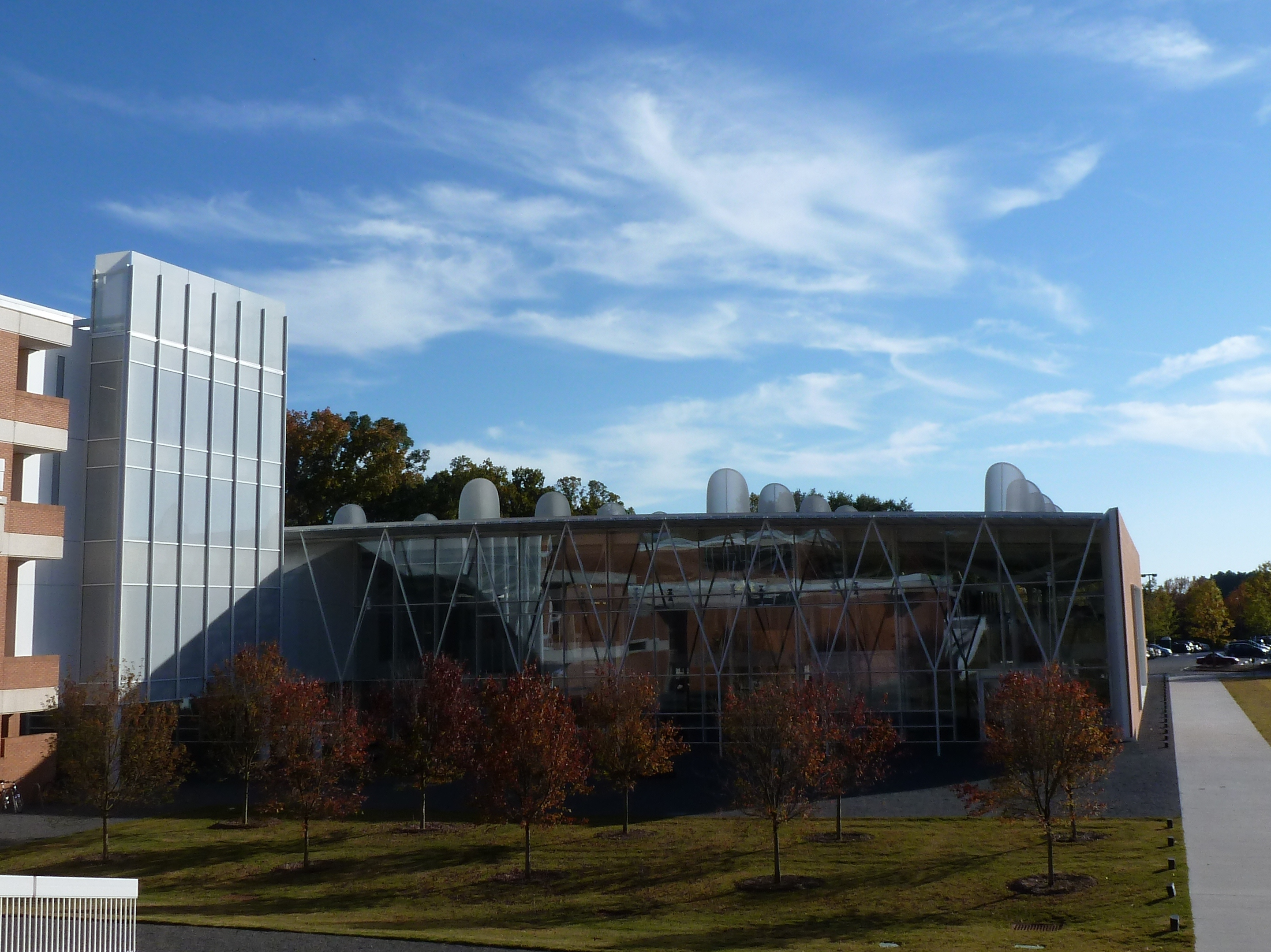 This photograph shows a front view of the Lee III Hall.